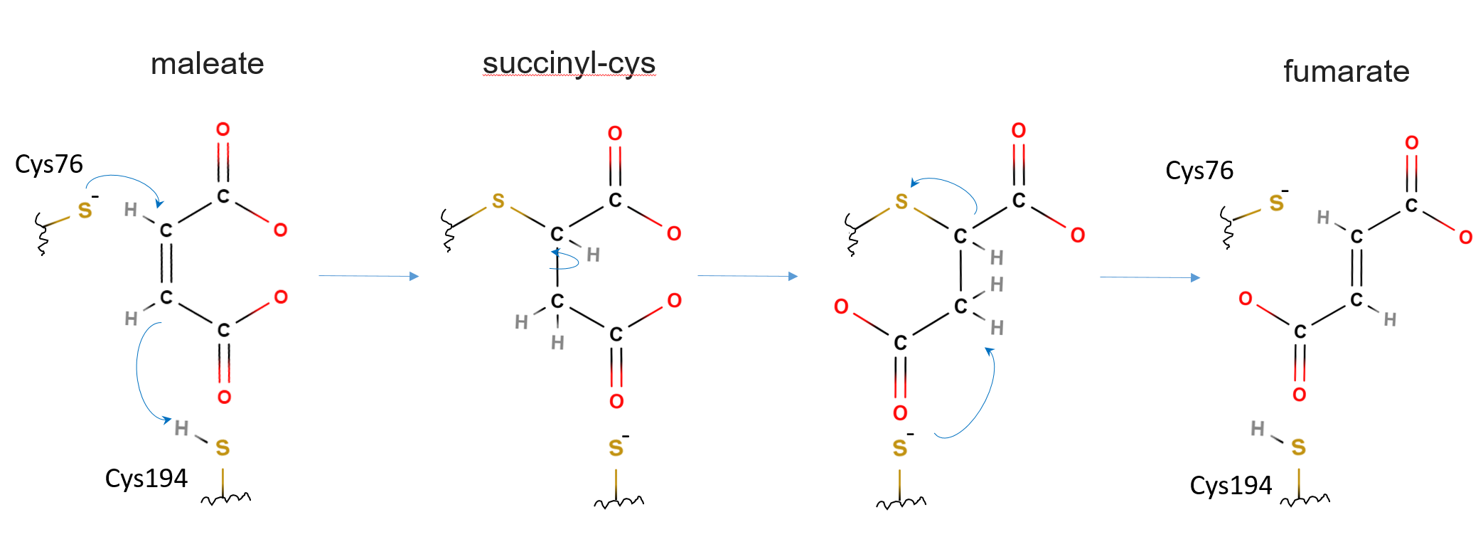 Maleate Isomerase Reaction Mechanism Proposal